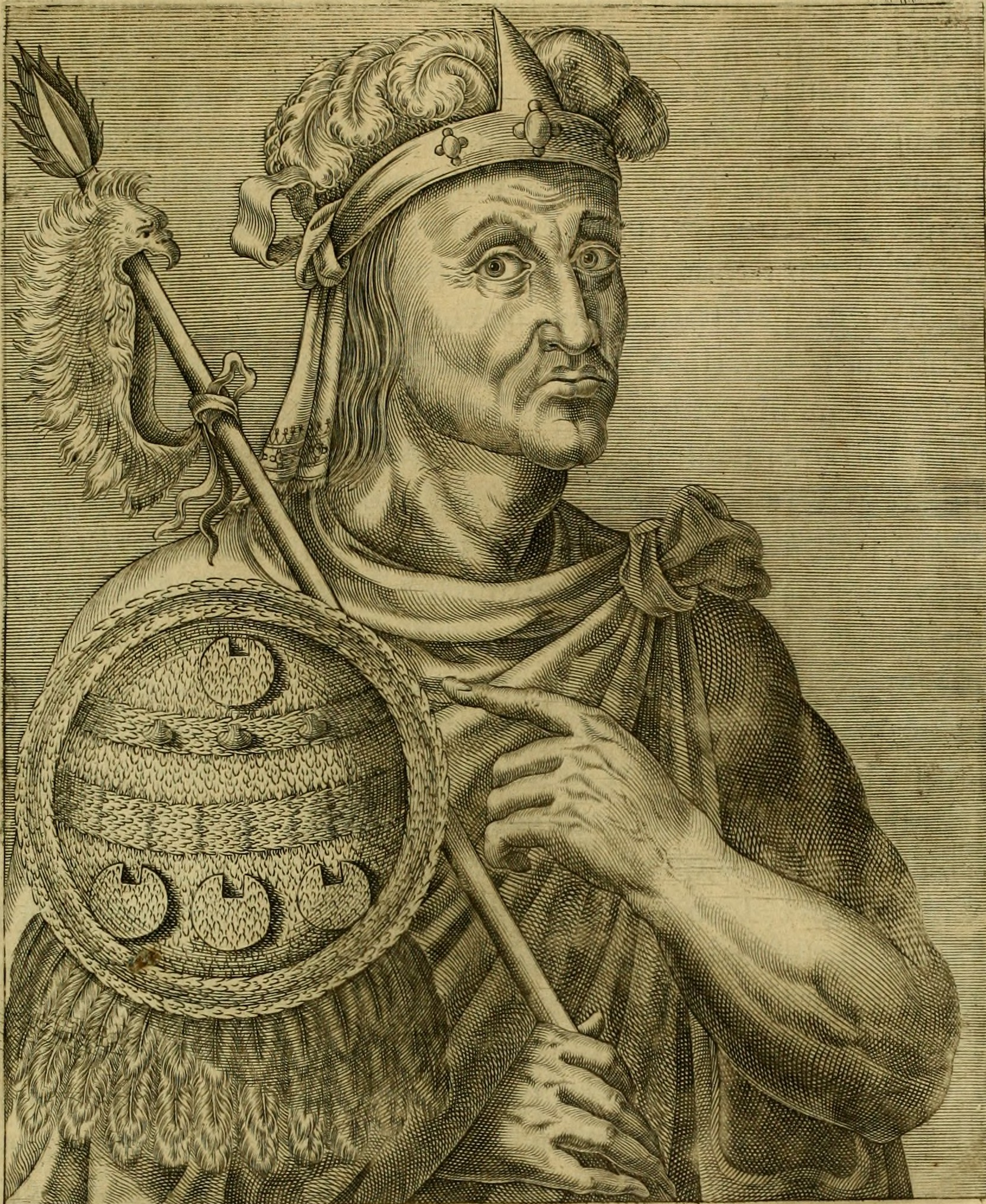 Moctezuma II, from tome 3, folio 644 recto of Les vrais pourtraits et vies des hommes illustres grecz, latins et payens (1584) by André Thevet.